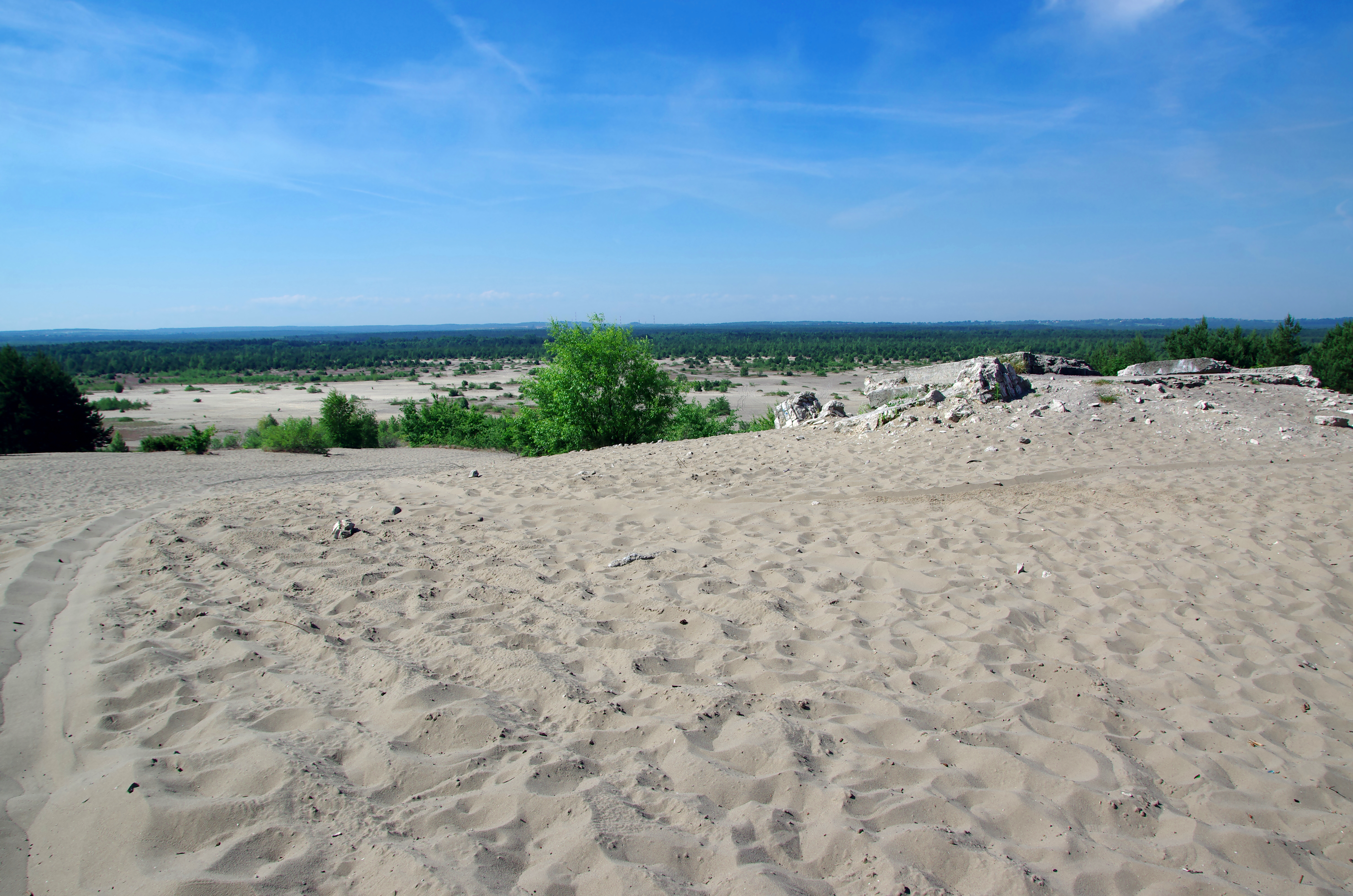 Błędów Desert in Chechło